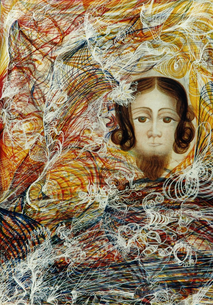 watercolour, Courtauld Institute of Art Gallery